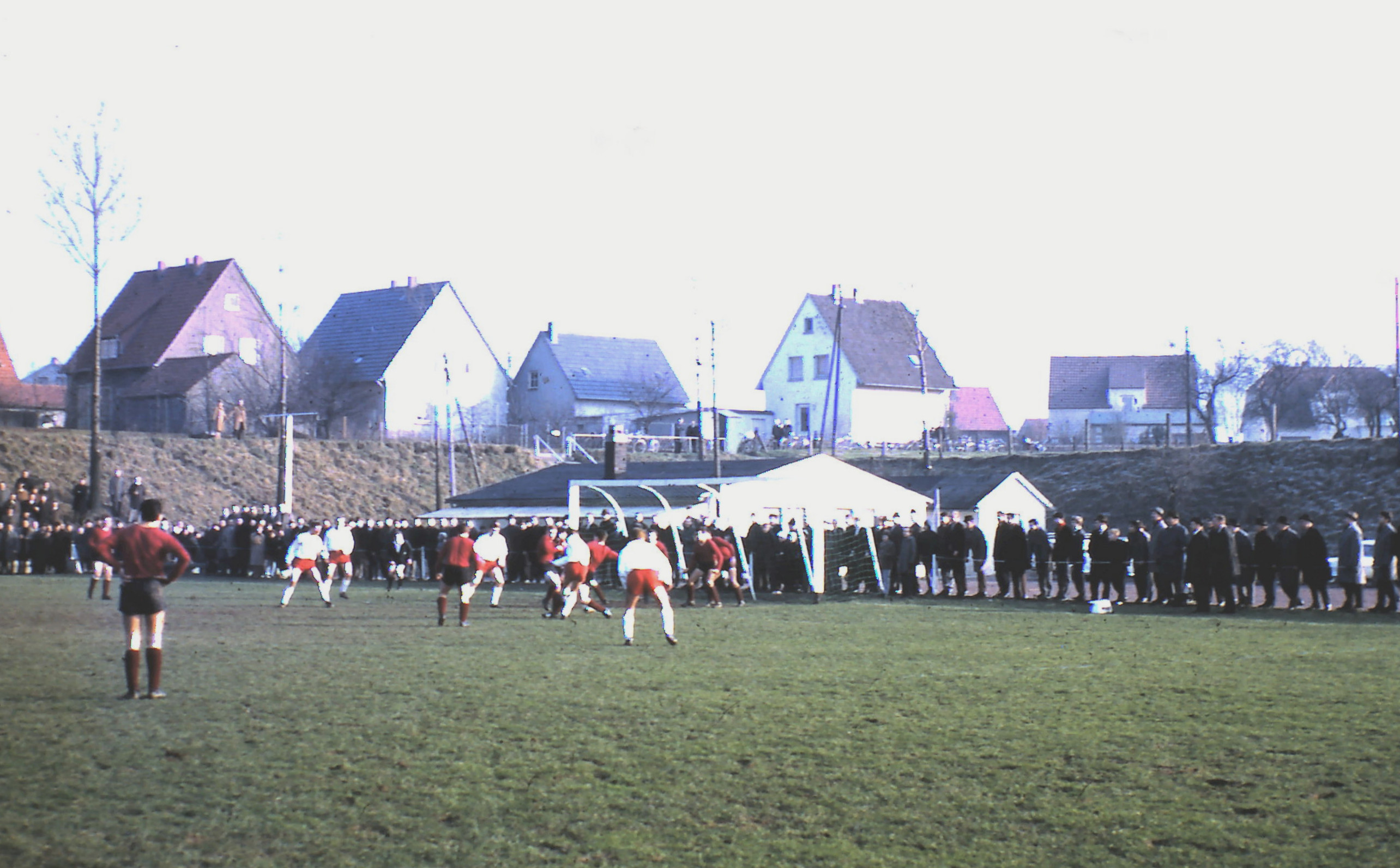 Sports field in Porta Westfalica, Germany 1967